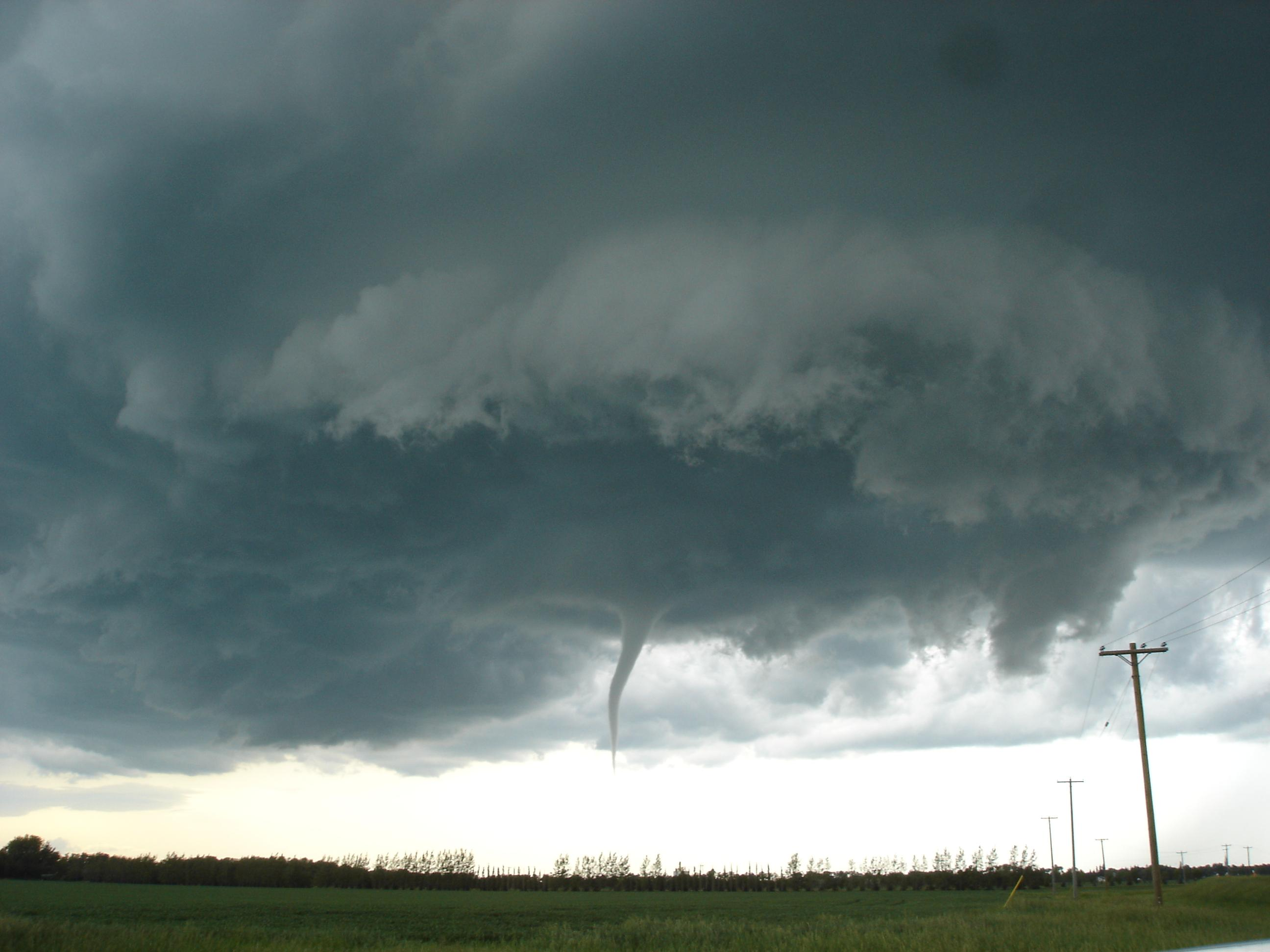 Funnel cloud, viewed from the southeast, that became an F5 tornado (inital estimate of F4) that hit Elie, Manitoba on Friday, June 22nd, 2007.